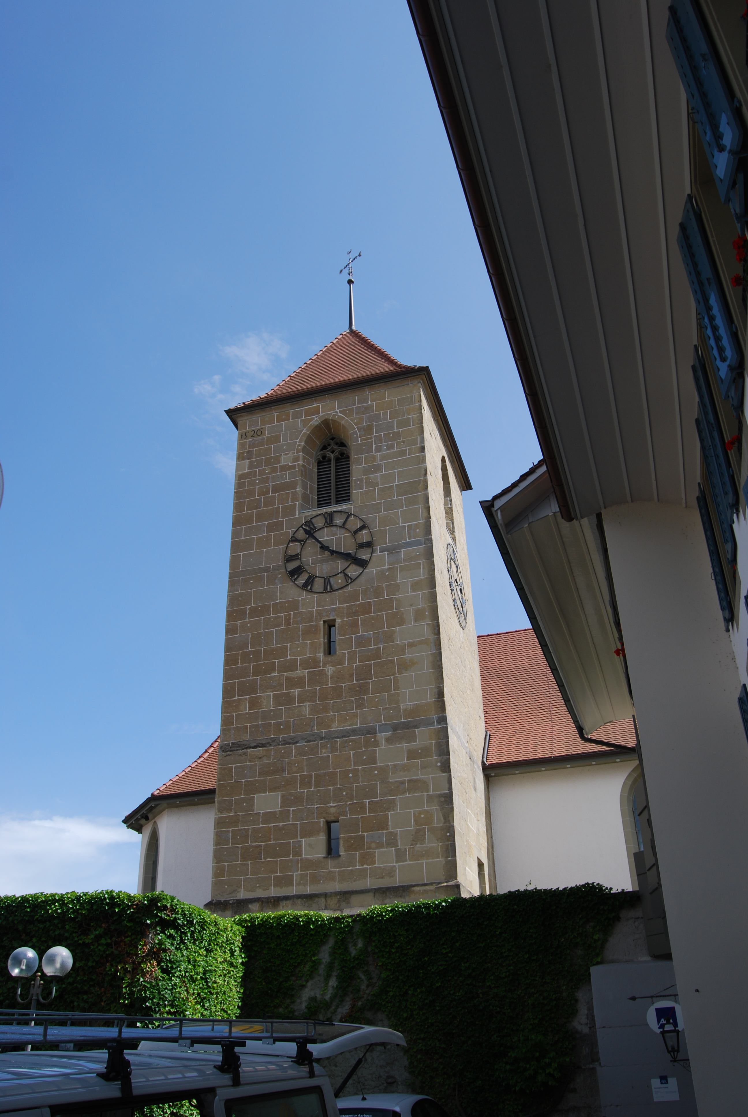 Church of Aarberg, canton of Bern, Switzerland